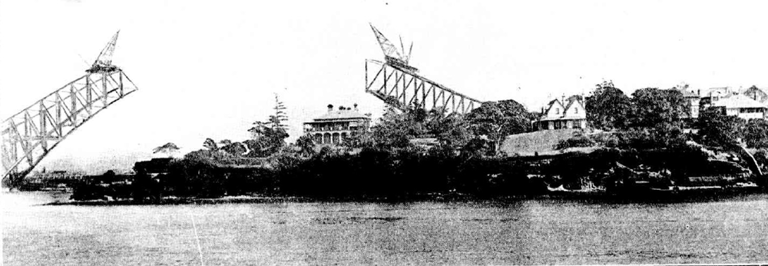 Kirribilli House and Admiralty House in 1930. The partially constructed Sydney Harbour Bridge can be seen in the Background.